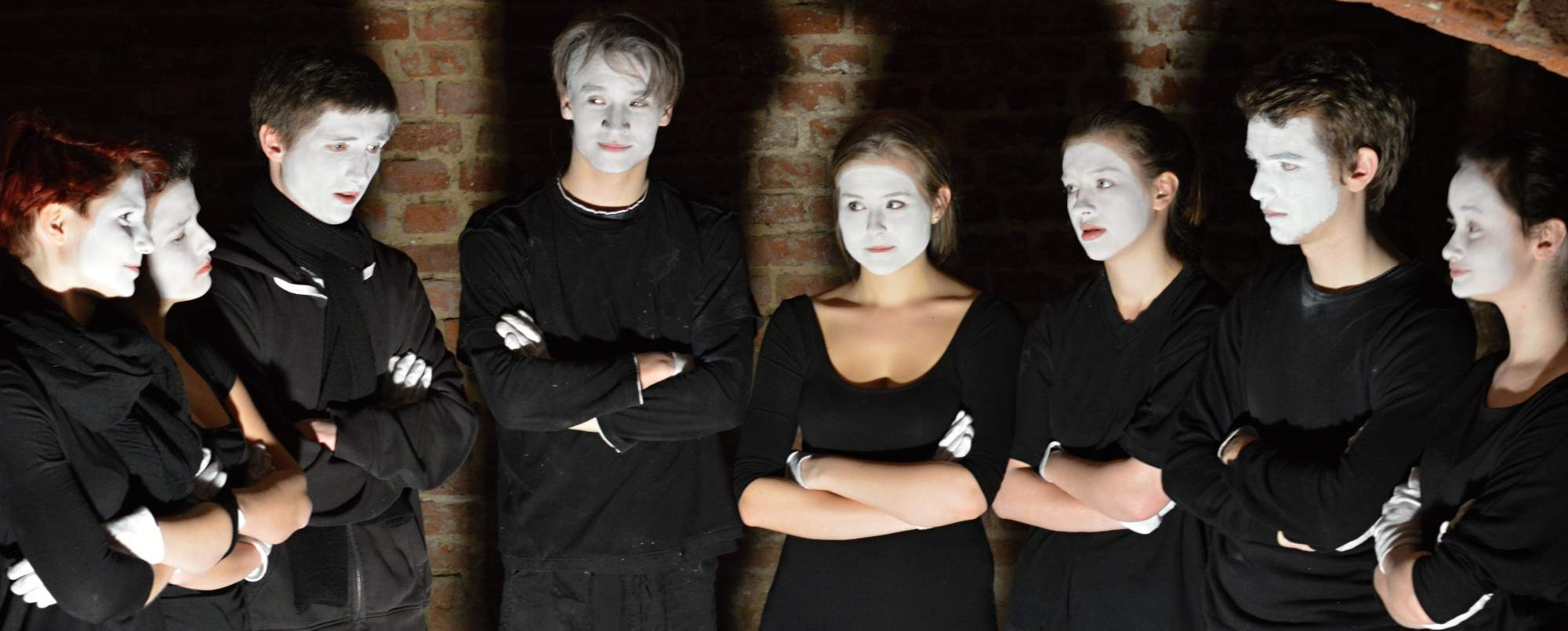 Poslední oheň